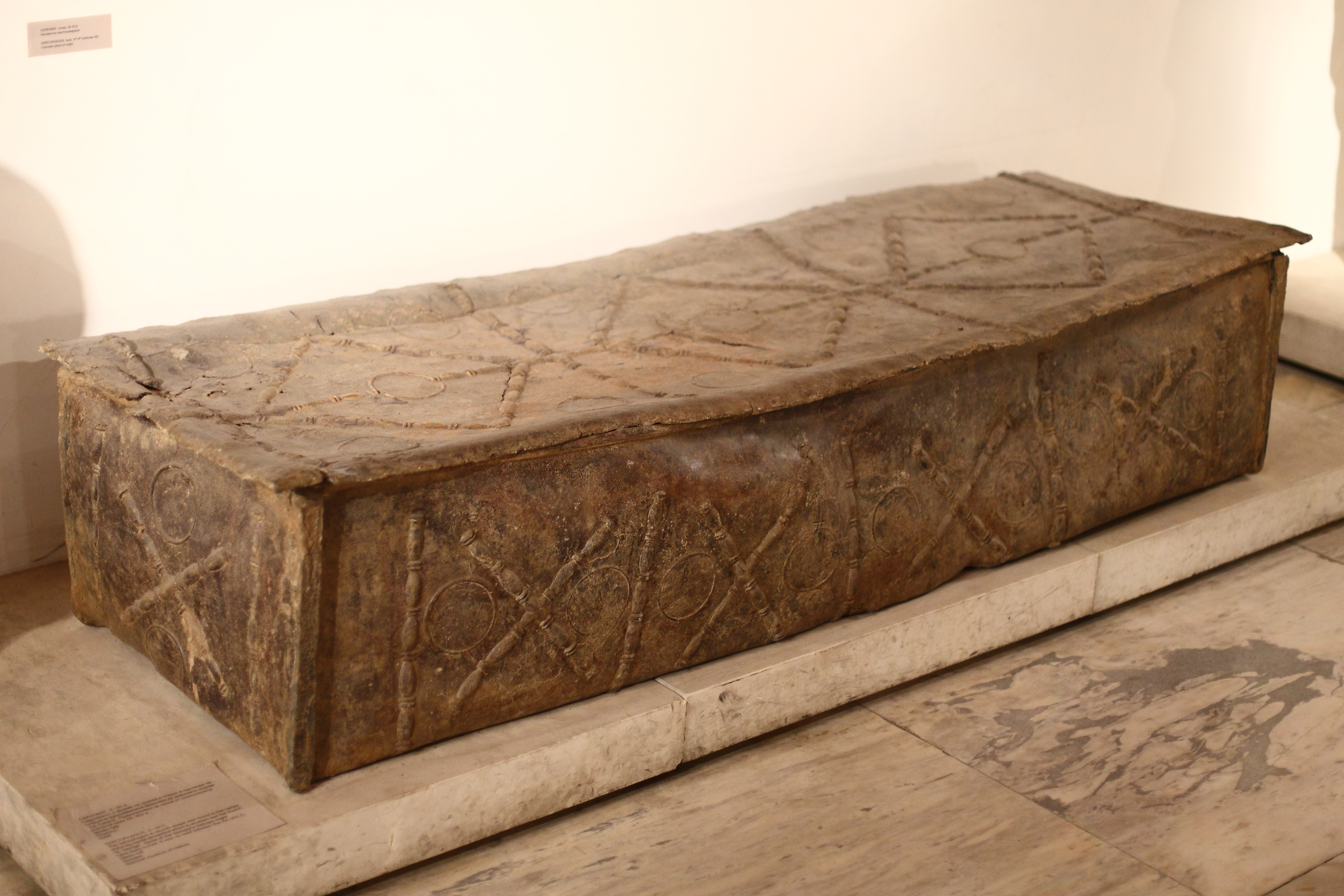 National Historical Museum of Bulgaria, in Sofia